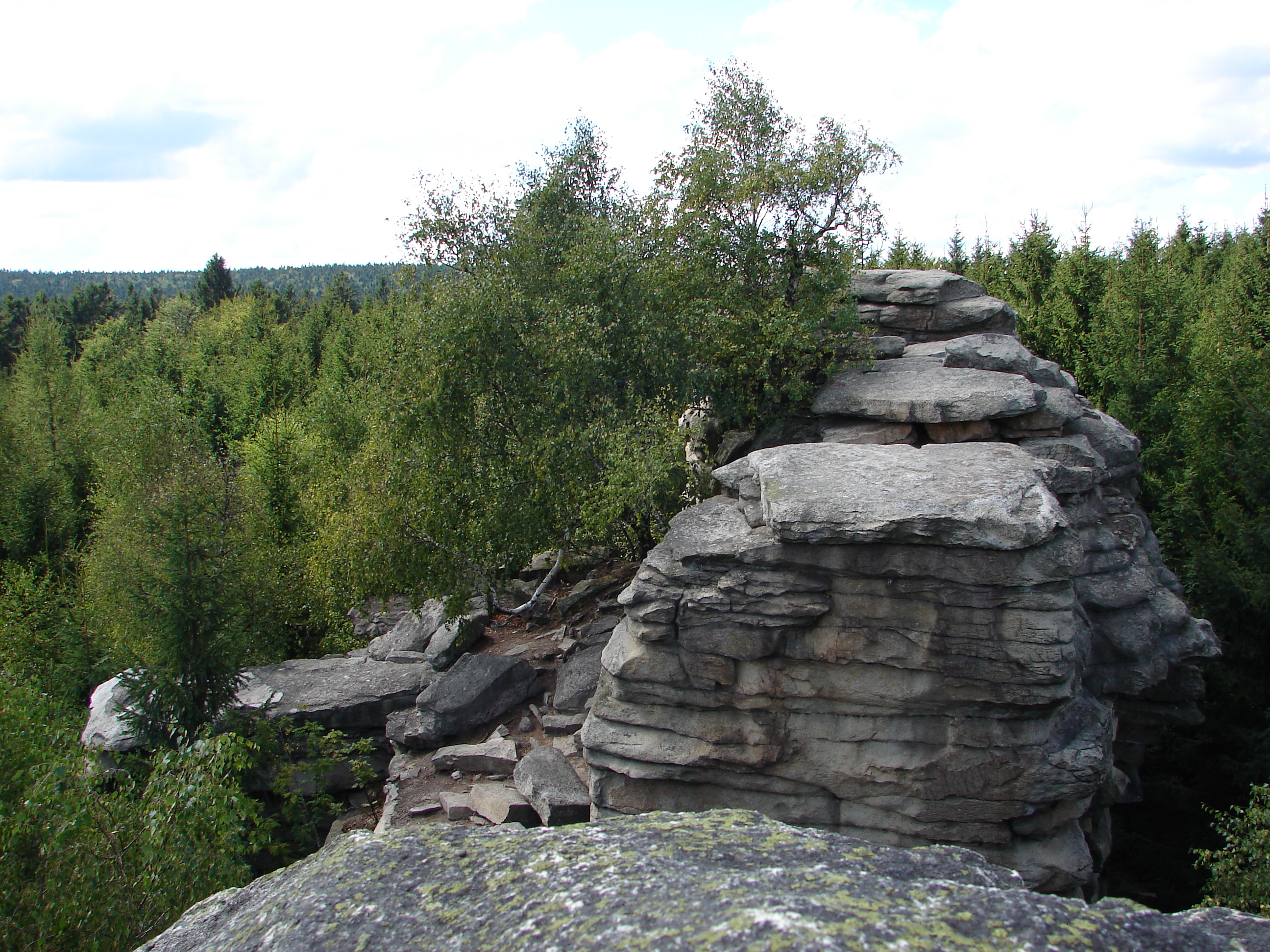 Natural monument Máchova skála, Jihlava District, Czech Republic.